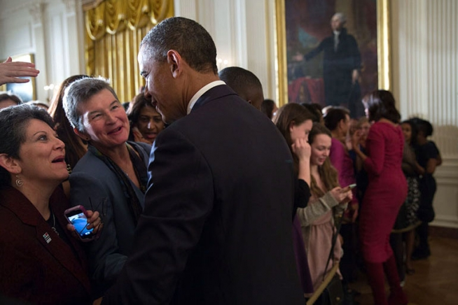 United States President Barack Obama and First Lady Michelle Obama greet guests following the Women's History Month reception in the East Room of the White House on 18 March 2013.